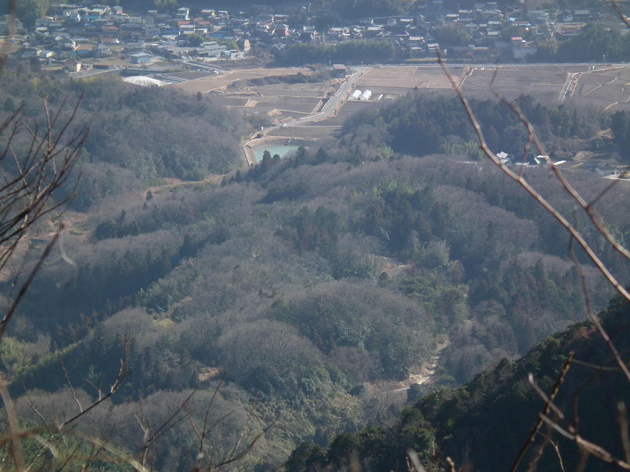 Yamada-cho,Kita-ku,Kobe